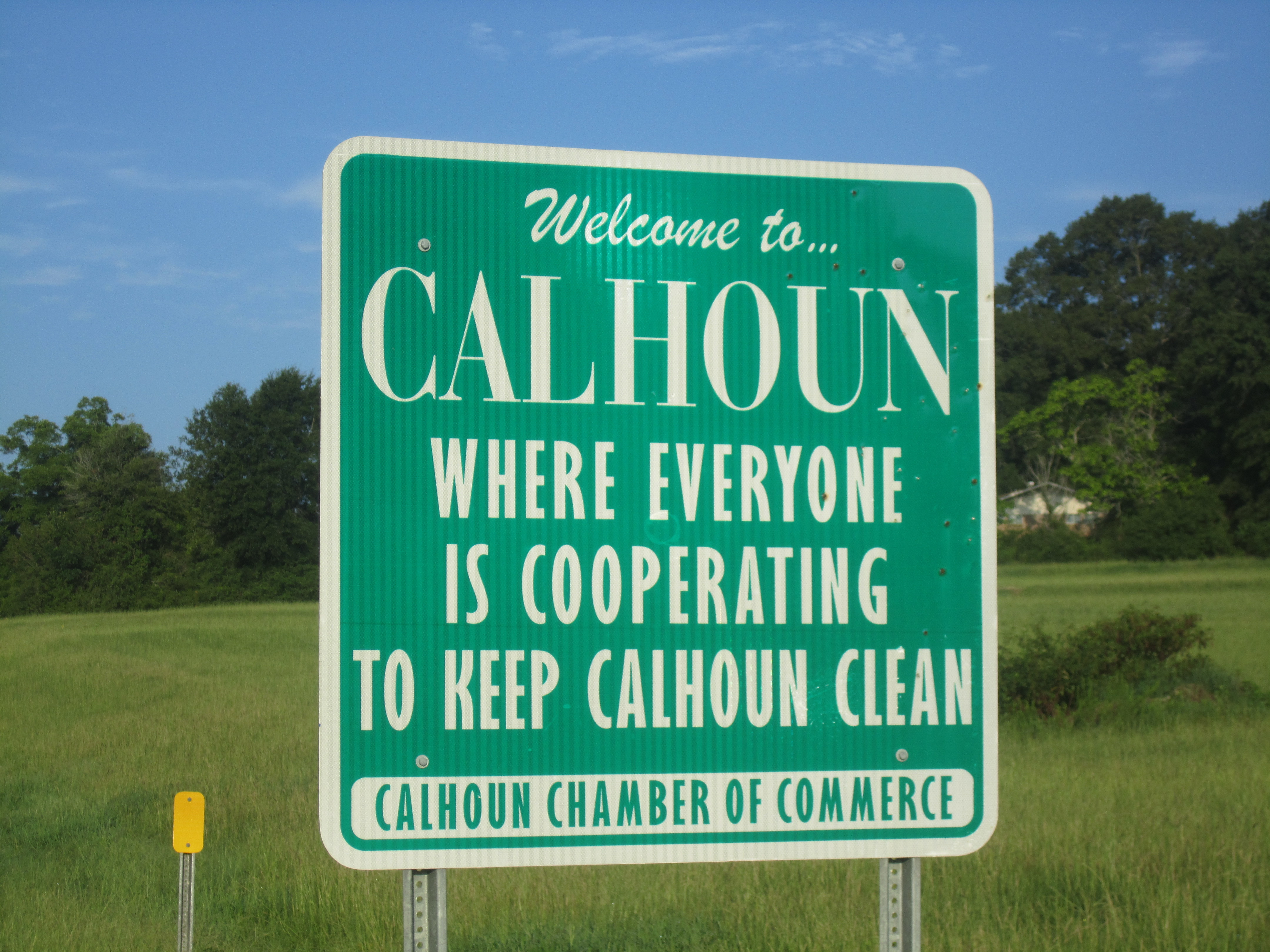 I took photo with Canon camera in Calhoun, LA.